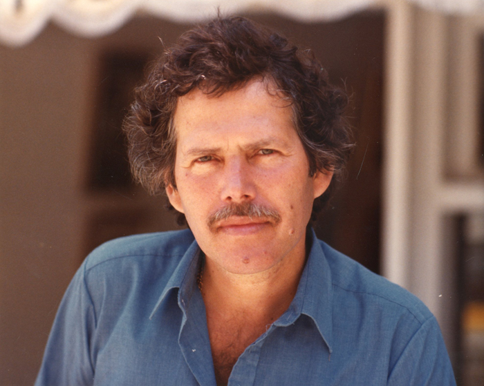 Photograph